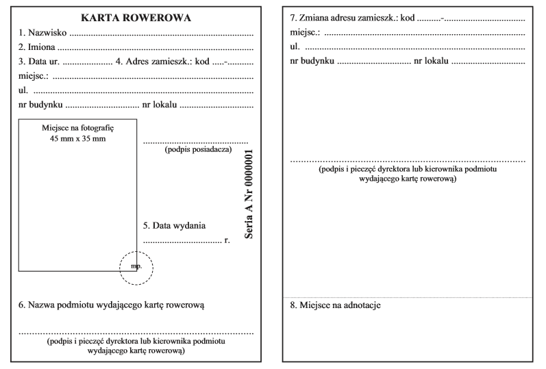 A specimen of a cycling card since 2013